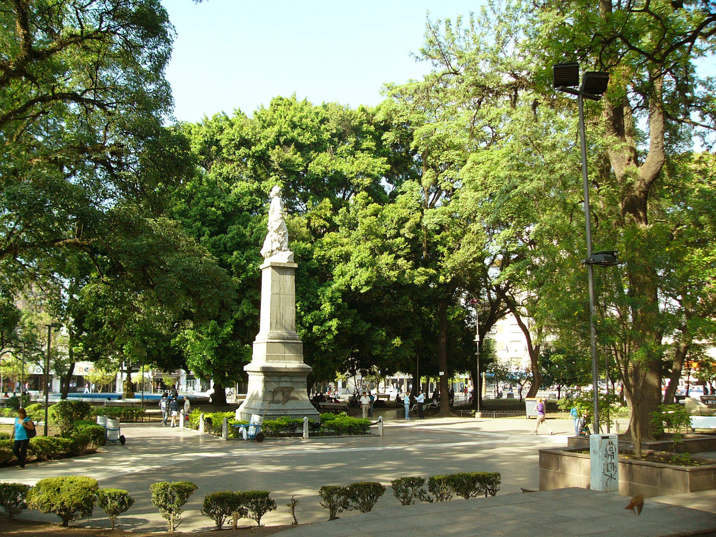 Monument to Liberty (Lola Mora, 1904). Plaza de la Independencia, in Tucumán, Argentina.